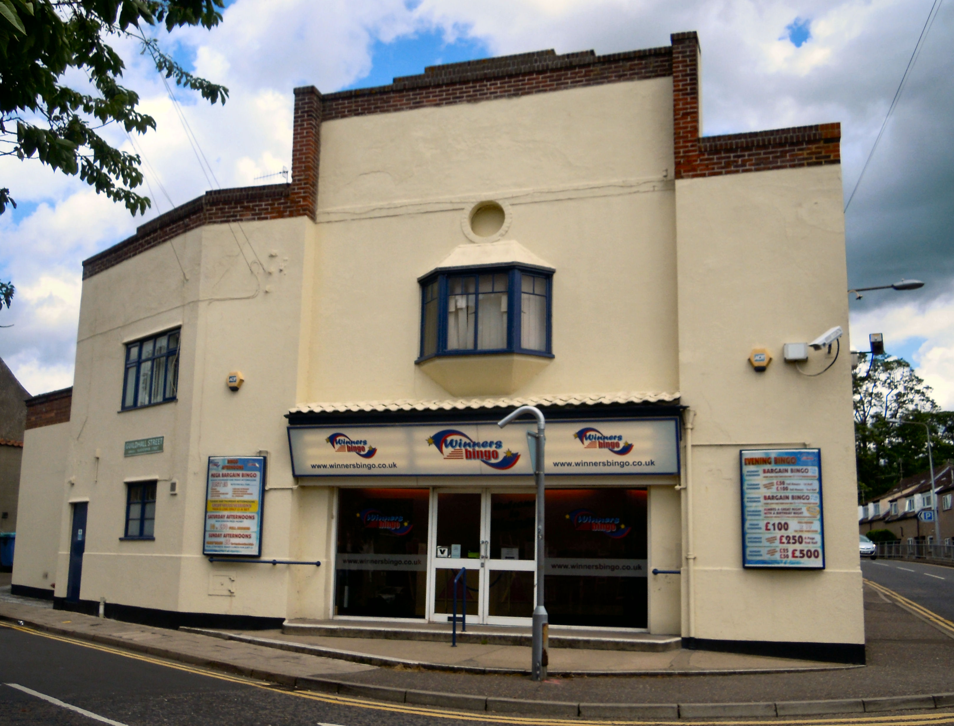 The former Palace Cinema in Thetford, now a bingo hall